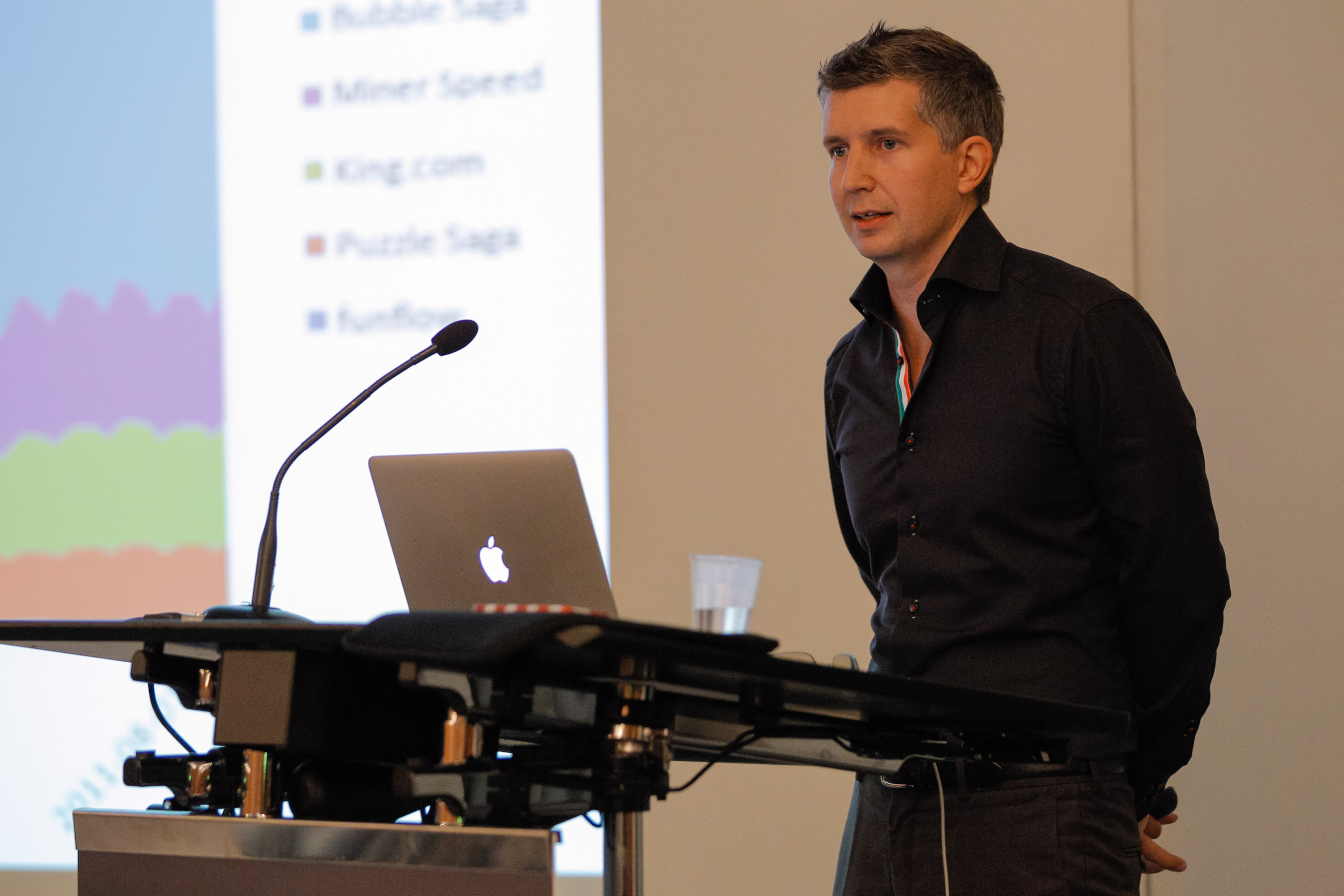 GDC Europe 2013 Session: Candy Crush Postmortem: Luck in the Right Places. Tommy Palm , Tracks: Free to Play Design & Business Summit